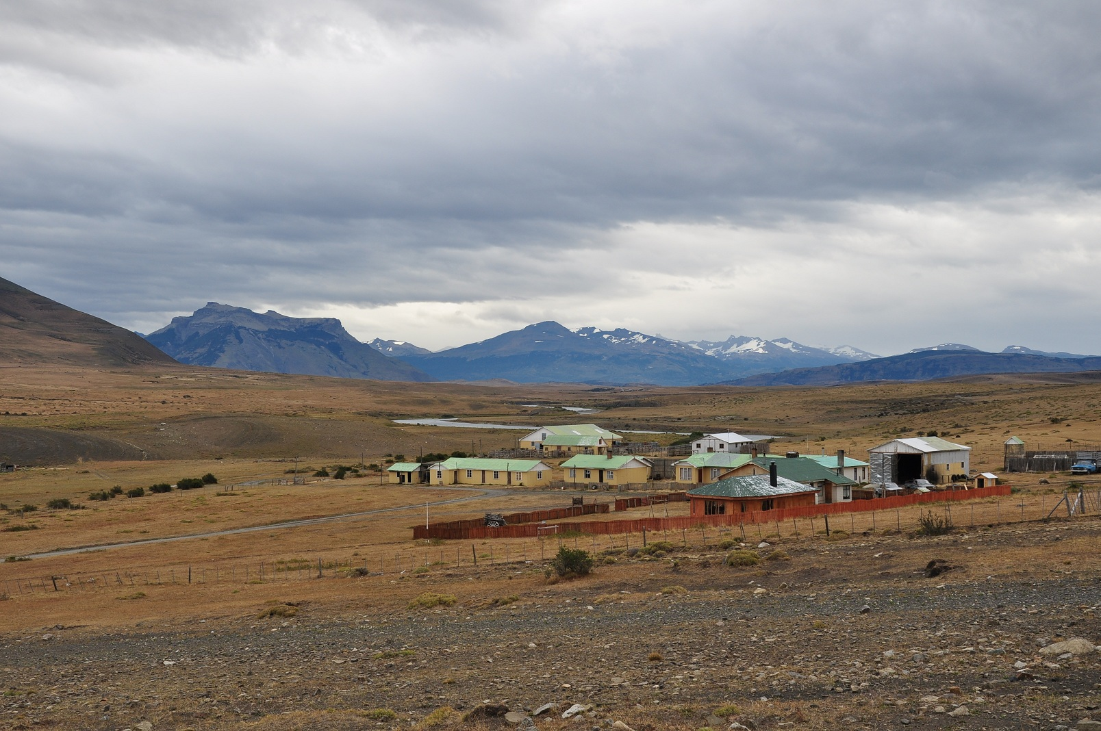 A farm (Agroturismo Los Manantiales) in Chilean Patagonia (Comuna de Torres del Paine), 10 km north of Cerro Castillo, on Ruta 9 (CH-9). The river is the Rio de las Chinas.